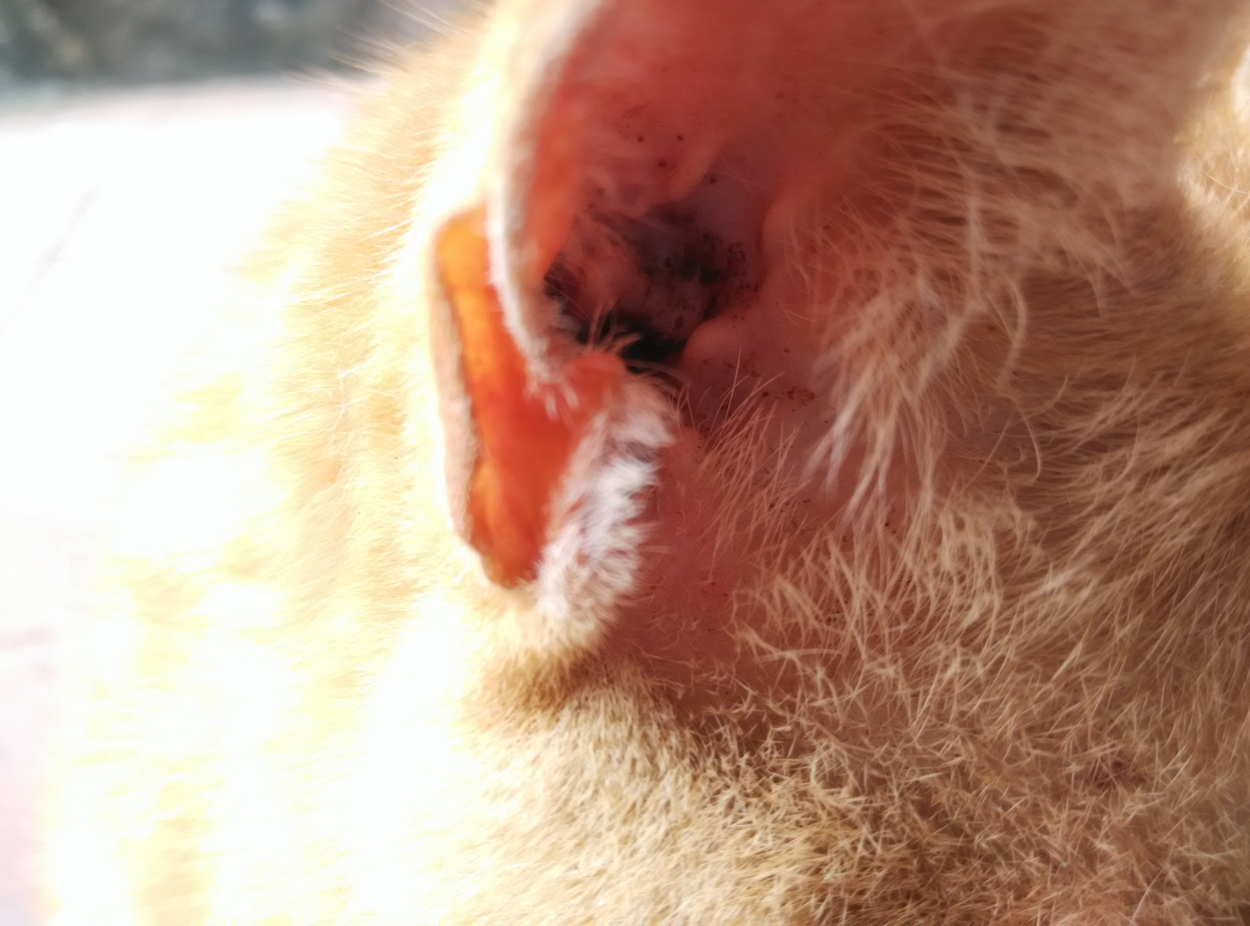 中文（香港）: Cat's earwax